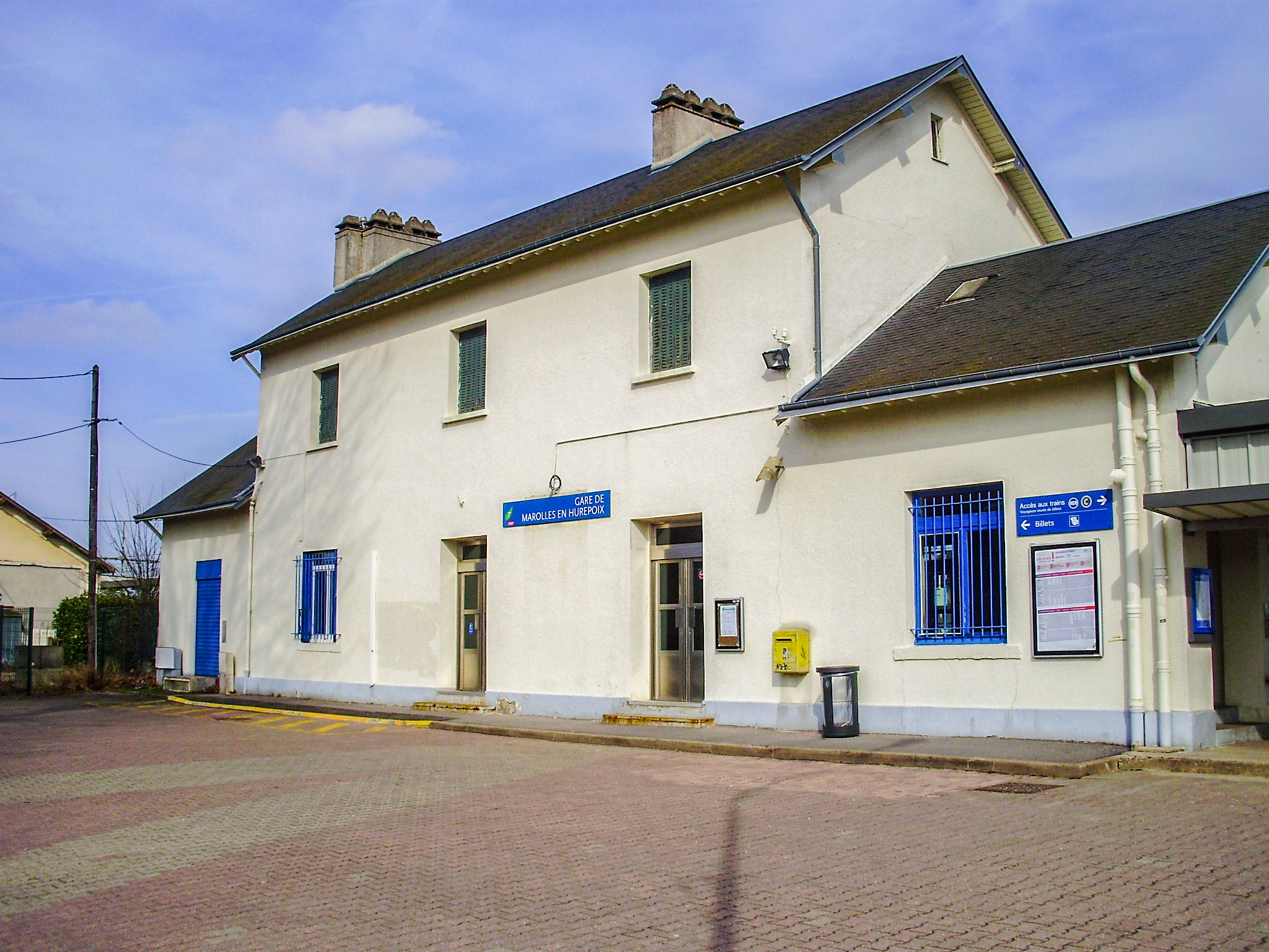 Marolles-en-Hurepoix station, Essonne, France